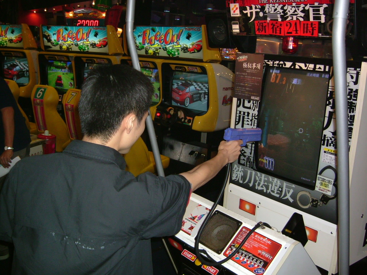 Survival Horror Light gun arcade gameTakuya gets the bad guys